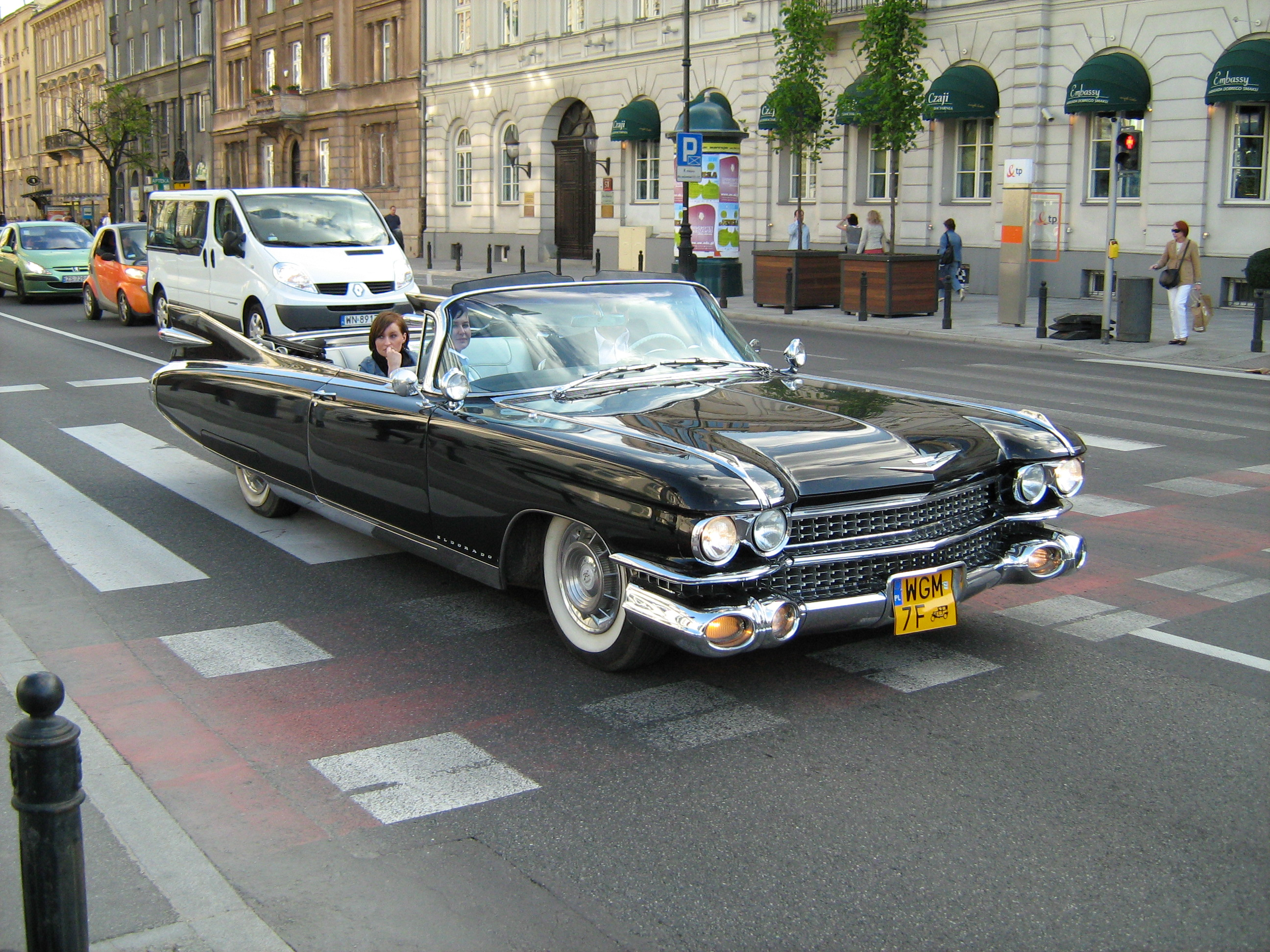 1959 Cadillac Eldorado Biarritz convertible finished in black. Picture taken on Aleje Ujazdowskie (at pedestrian crosswalk on south side side of plac Trzech Krzyży with Restauracja Czaji in the background) in Warsaw Poland.